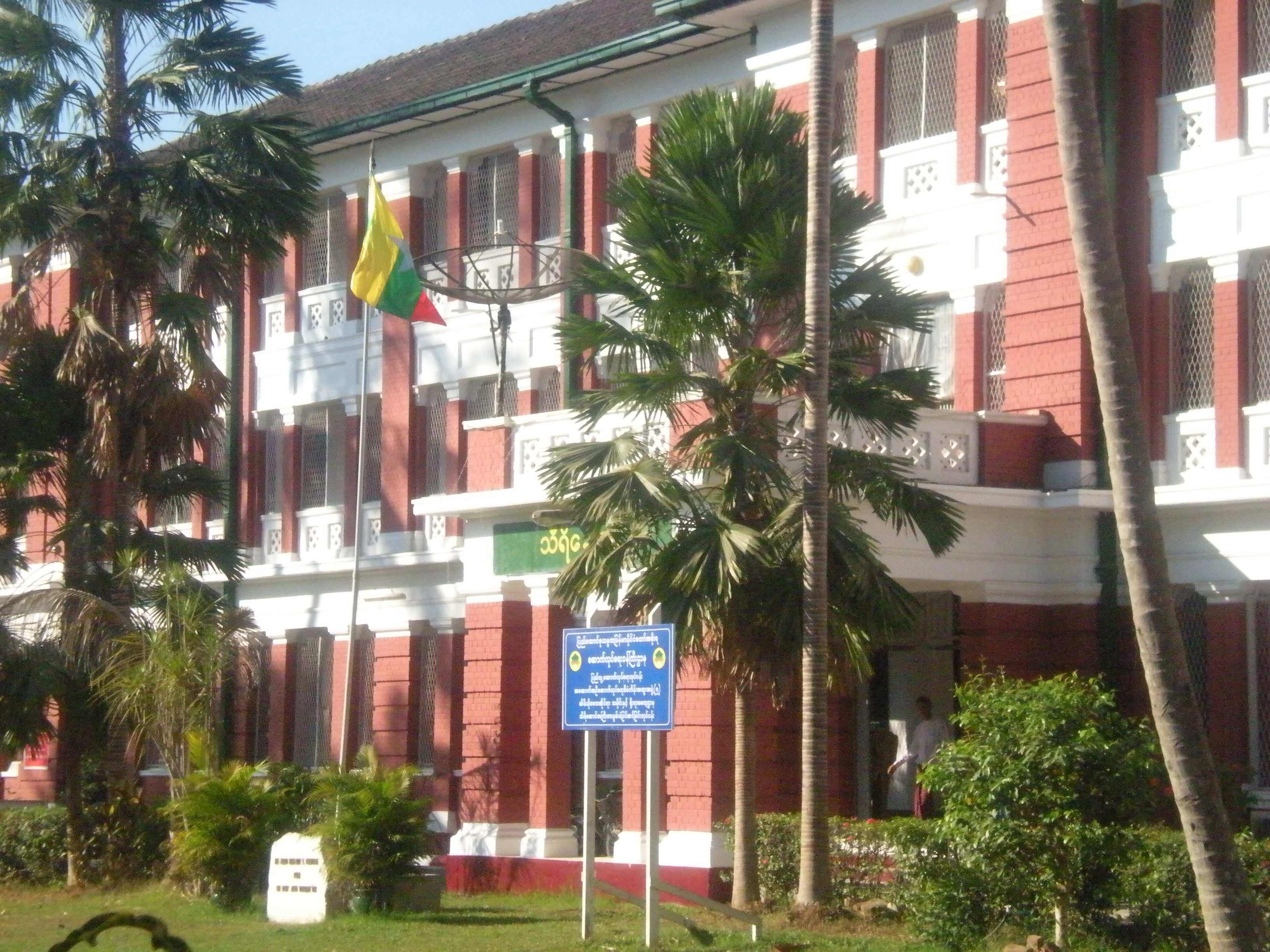 Thiri Hall (women)မြန်မာဘာသာ: သီရိေဆာင္